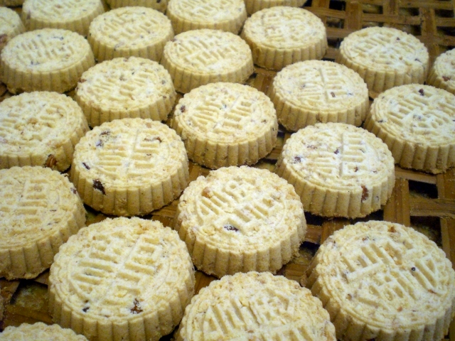 鉅記餅家杏仁餅 Photo author= Mo707